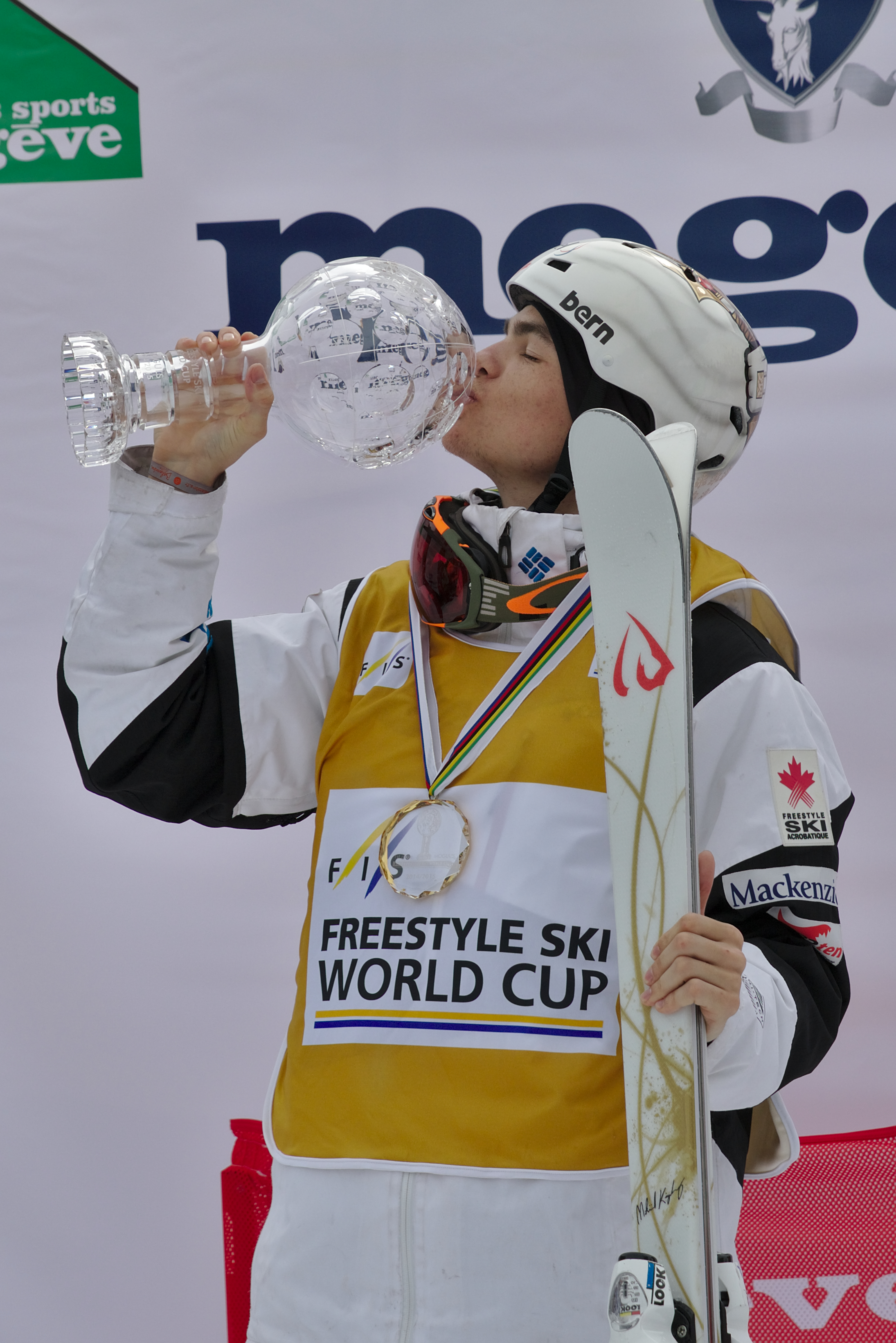 FIS Moguls World Cup 2015 Finals - Megève - 20150315 - Mikael Kingsbury